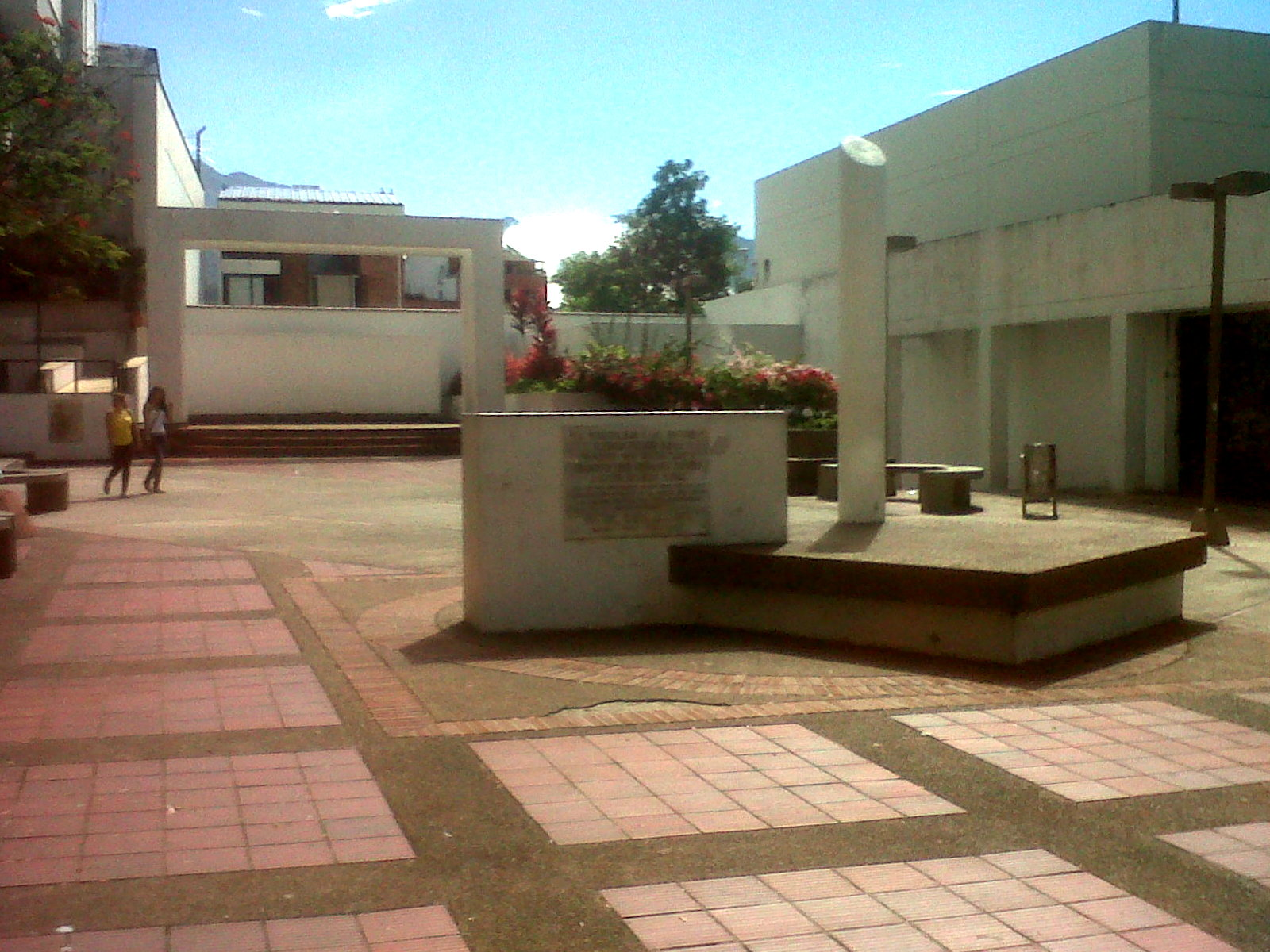 Plazoleta Darío Echandía Ibagué.